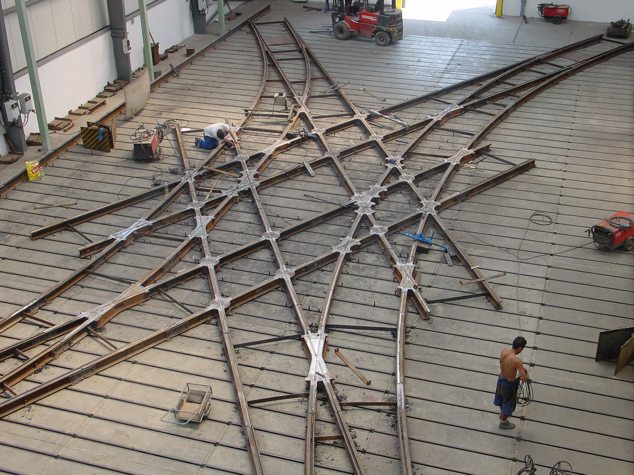 Main product of Prazska strojírna - here the crossing Palackeho namesti